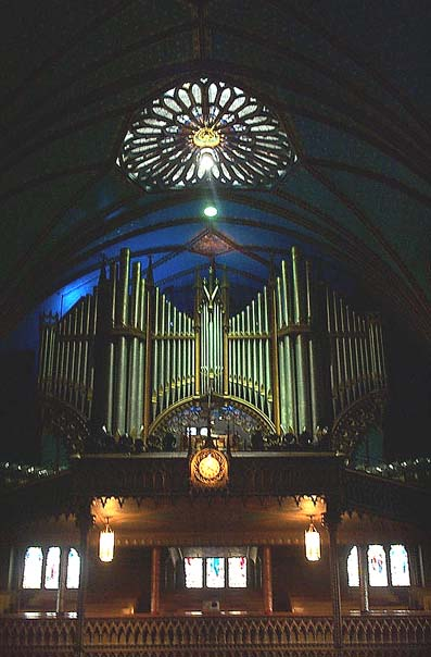 The pipe organ at Notre-Dame de Montréal Basilica Photo by Montrealais. Category:Musical instrument images